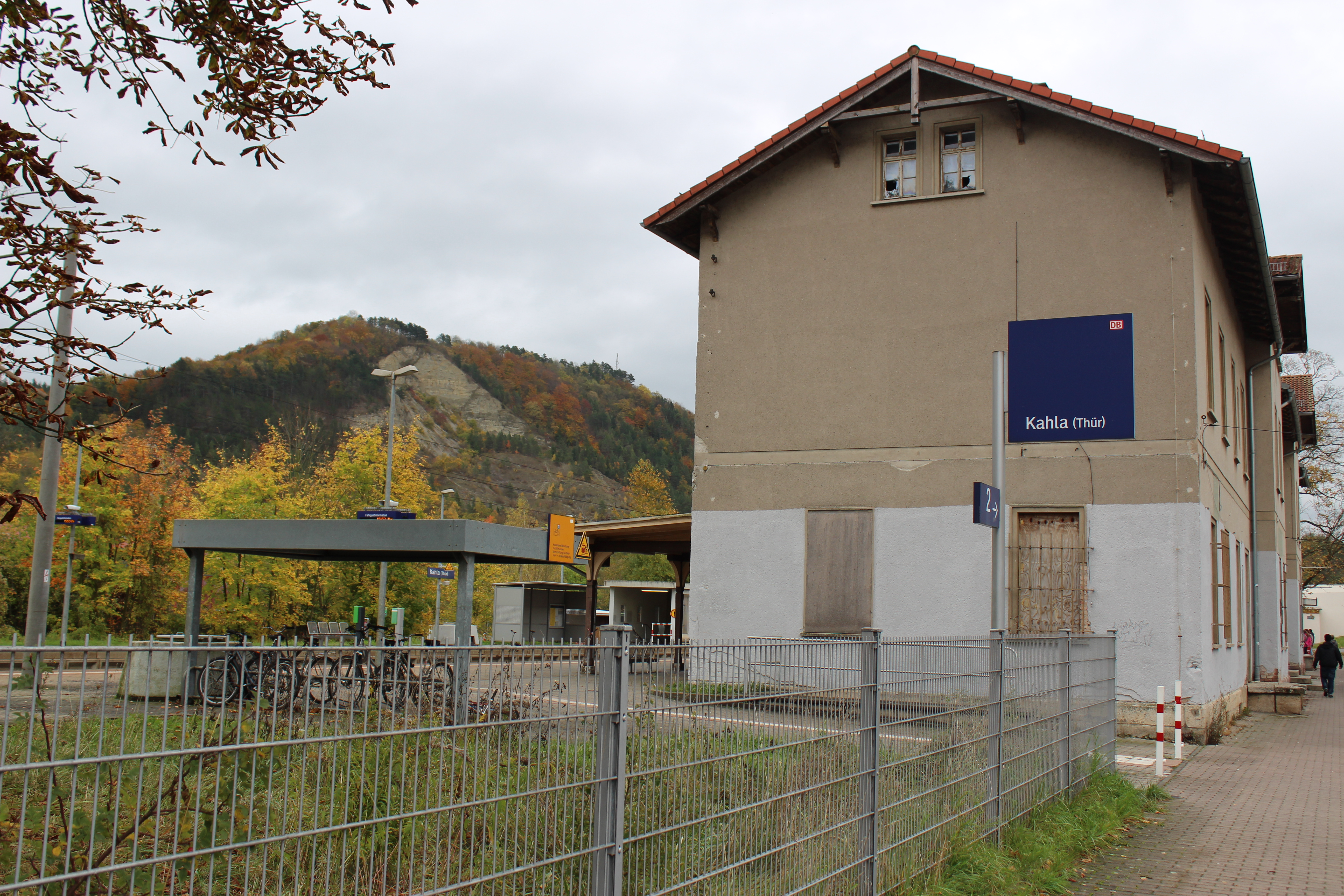 train station Kahla (Thür), entrance